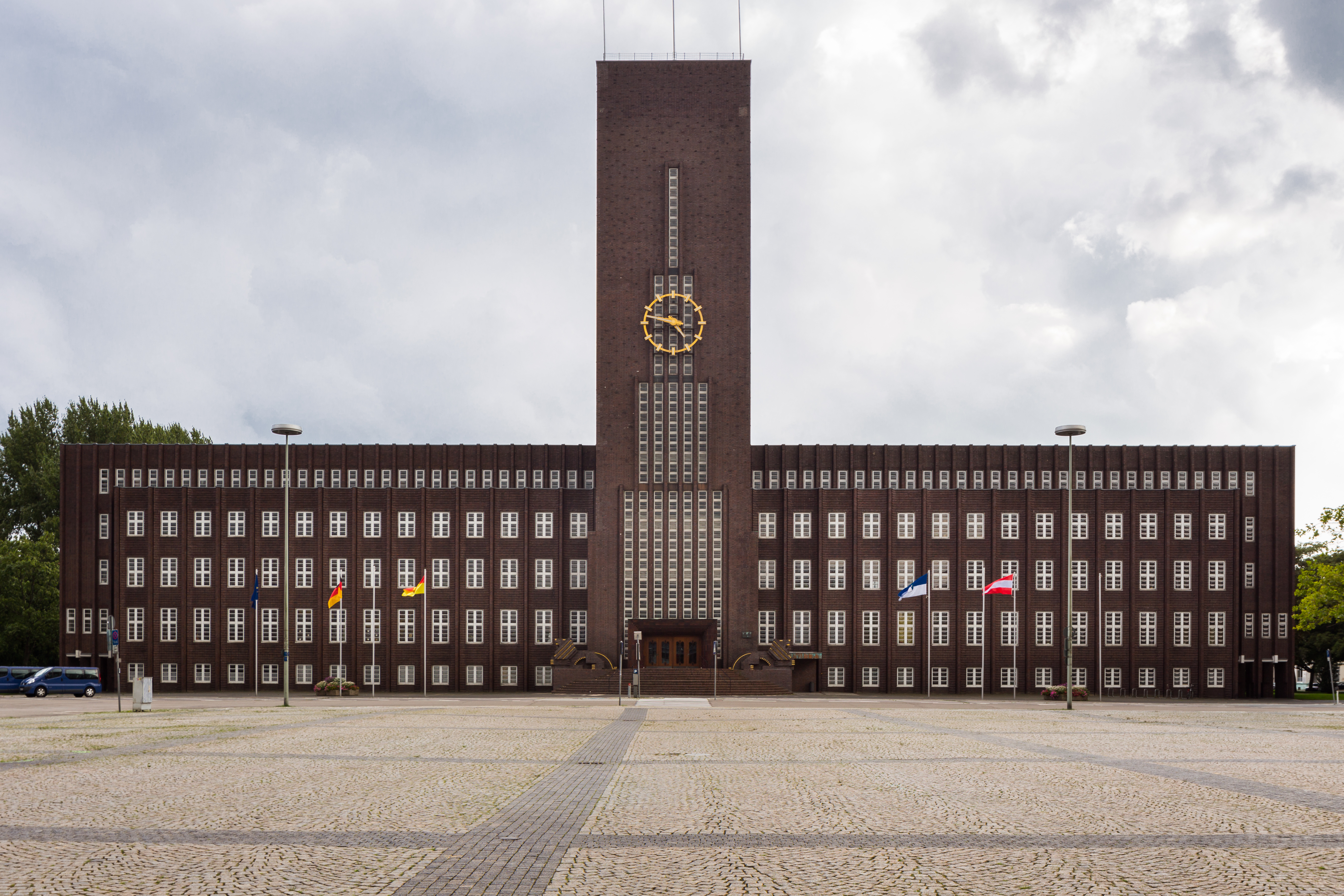 Wilhelmshaven townhall located in Wilhelmshaven, Lower Saxony, Germany. Frontal view of the building's northern side facing towards the townhall square.